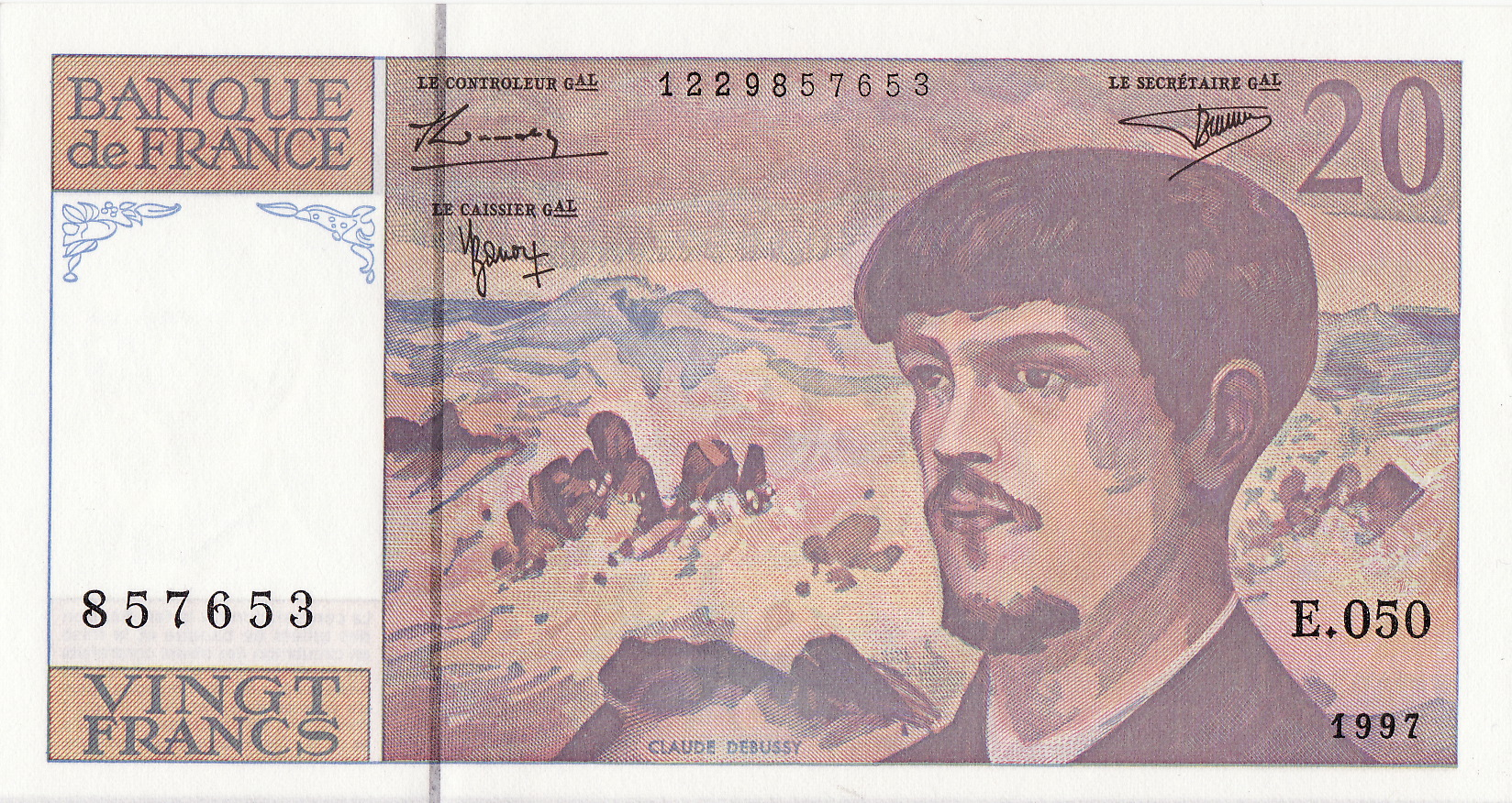 Twenty franc French banknote, 1993. Since a similar image can be found at in a gallery of numerous contemporary French banknotes at , for an established currency collections dealer, this indicates that there is no prohibition against publishing copies of french currency.